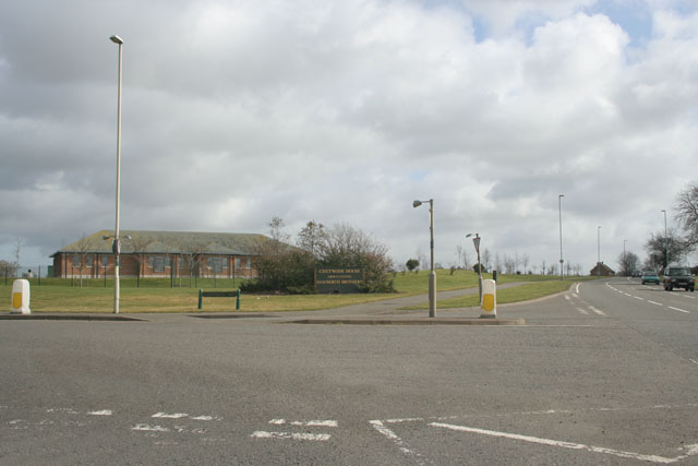 Factory Entrance near Melton Mowbray. Samworth Brothers head office fronts two food manufacturing plants on the A607